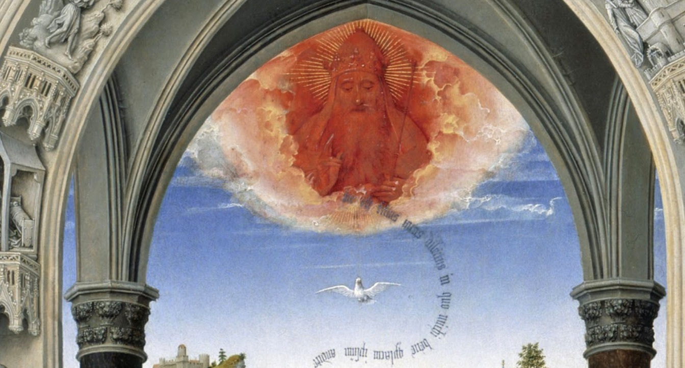 The Altar of St. John